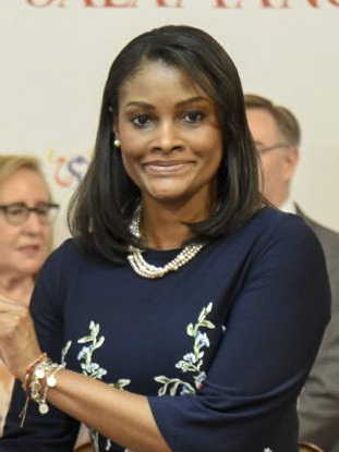 Fiscal General del Estado en firma de convenio de colaboración académica y científica con la Universidad de Salamanca - Madrid 26-06-2019 Fotografía: Fiscalía General del Estado